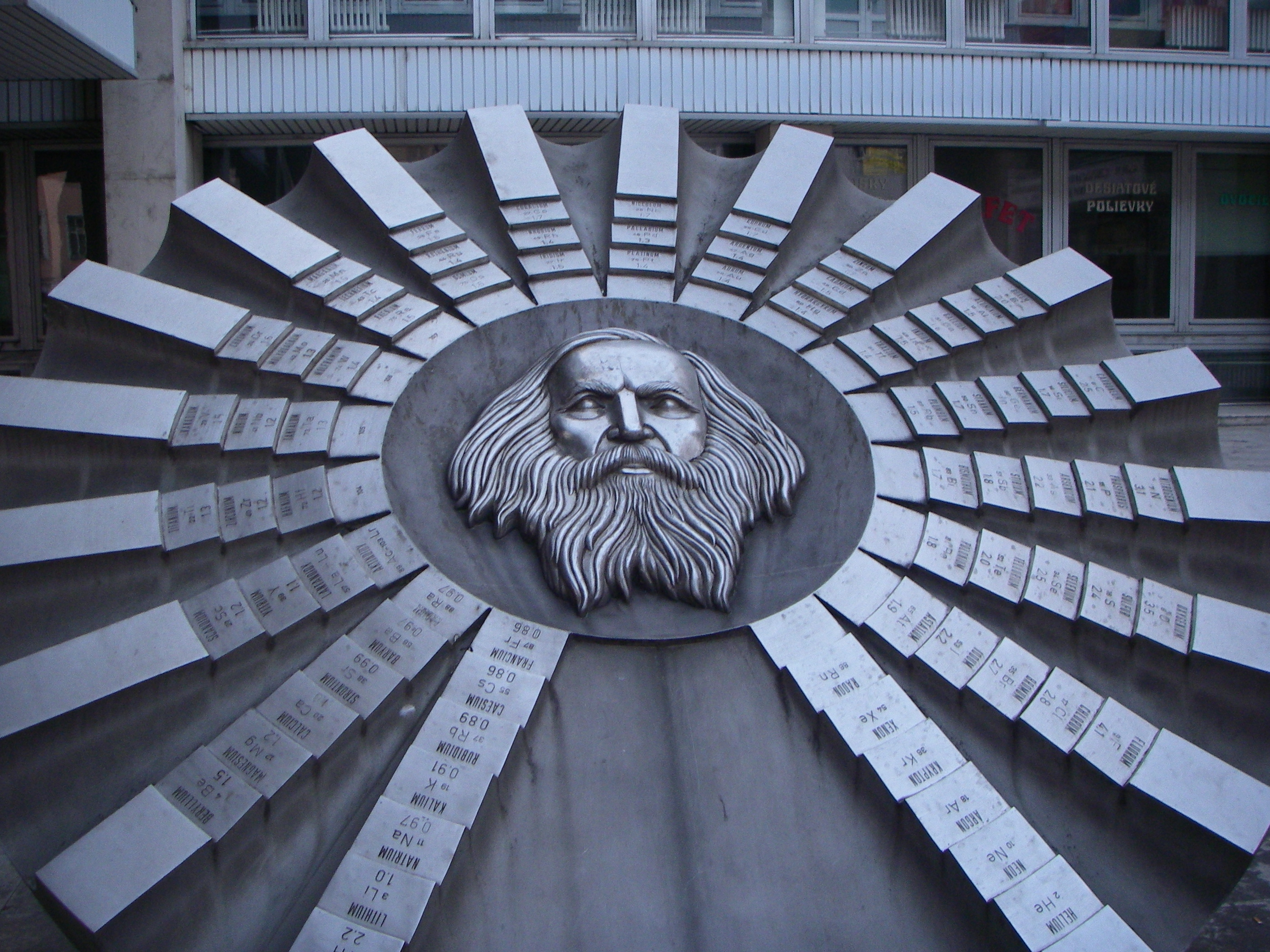 Monument to the periodic table, in front of the Faculty of Chemical and Food Technology of the Slovak University of Technology in Bratislava, Slovakia. The monument honors Dmitri Mendeleev.